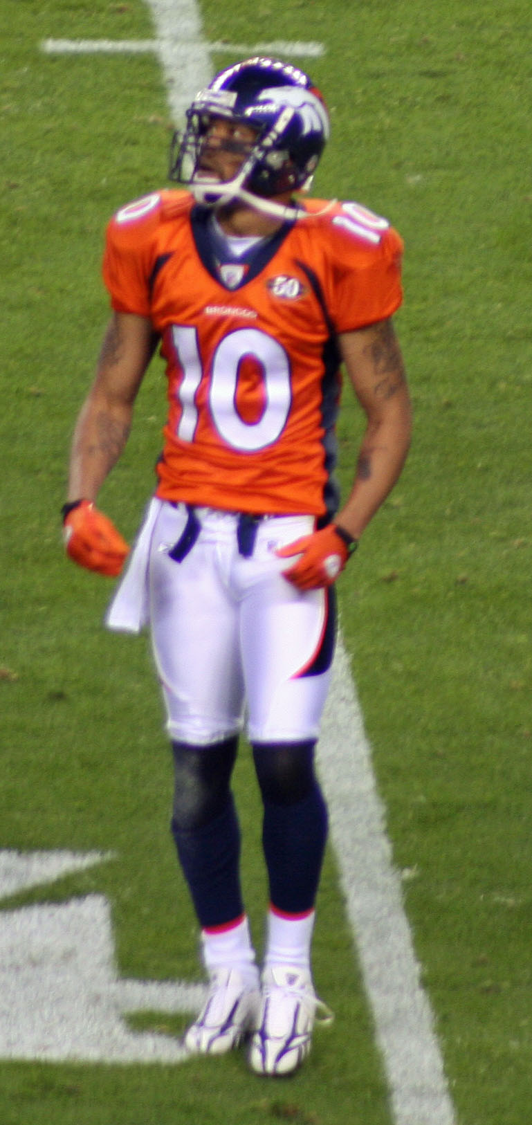 Jabar Gaffney, a player with the Denver Broncos American football team.